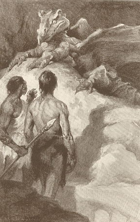 An interior illustration from At the Earth's Core (1922)